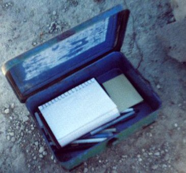 Summit Register at White Butte, highest point in North Dakota